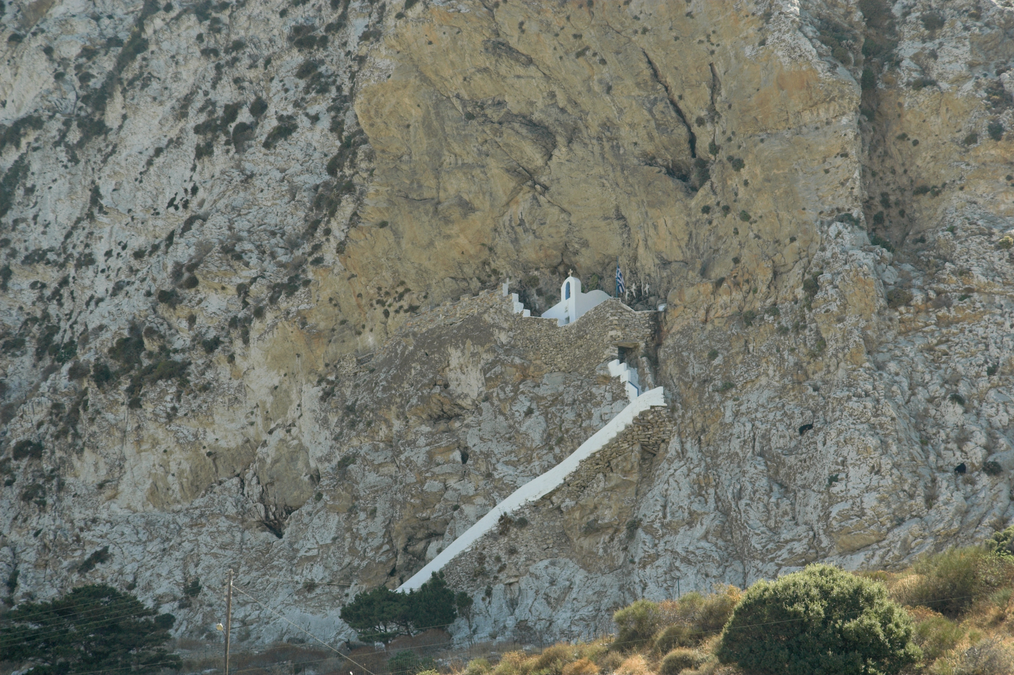 Church of Agia Triada before Lagada (near pedestrian way from Ormos Aigiali), Amorogs.